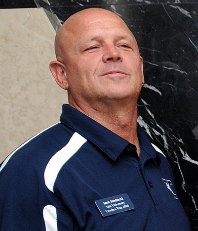 Five National Collegiate Athletic Association football coaches line up for a photograph, at Camp As Sayliyah, Qatar, May 22. The assembly of coaches included: Jack Siedlecki, Yale University; Mark Richt, University of Georgia; Randy Shannon, University of Miami; Tommy Tuberville, Auburn University; and Charlie Weis, University of Notre Dame. Morale Entertainment organized the tour in association with Armed Forces Entertainment. (U.S. Army photo/Dustin Senger)